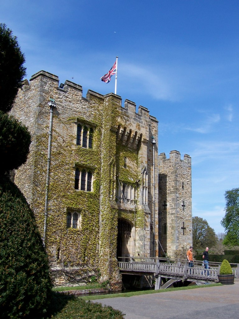 Front entrance to Hever Castle in Kent, famous as the childhood home of Anne Boleyn.